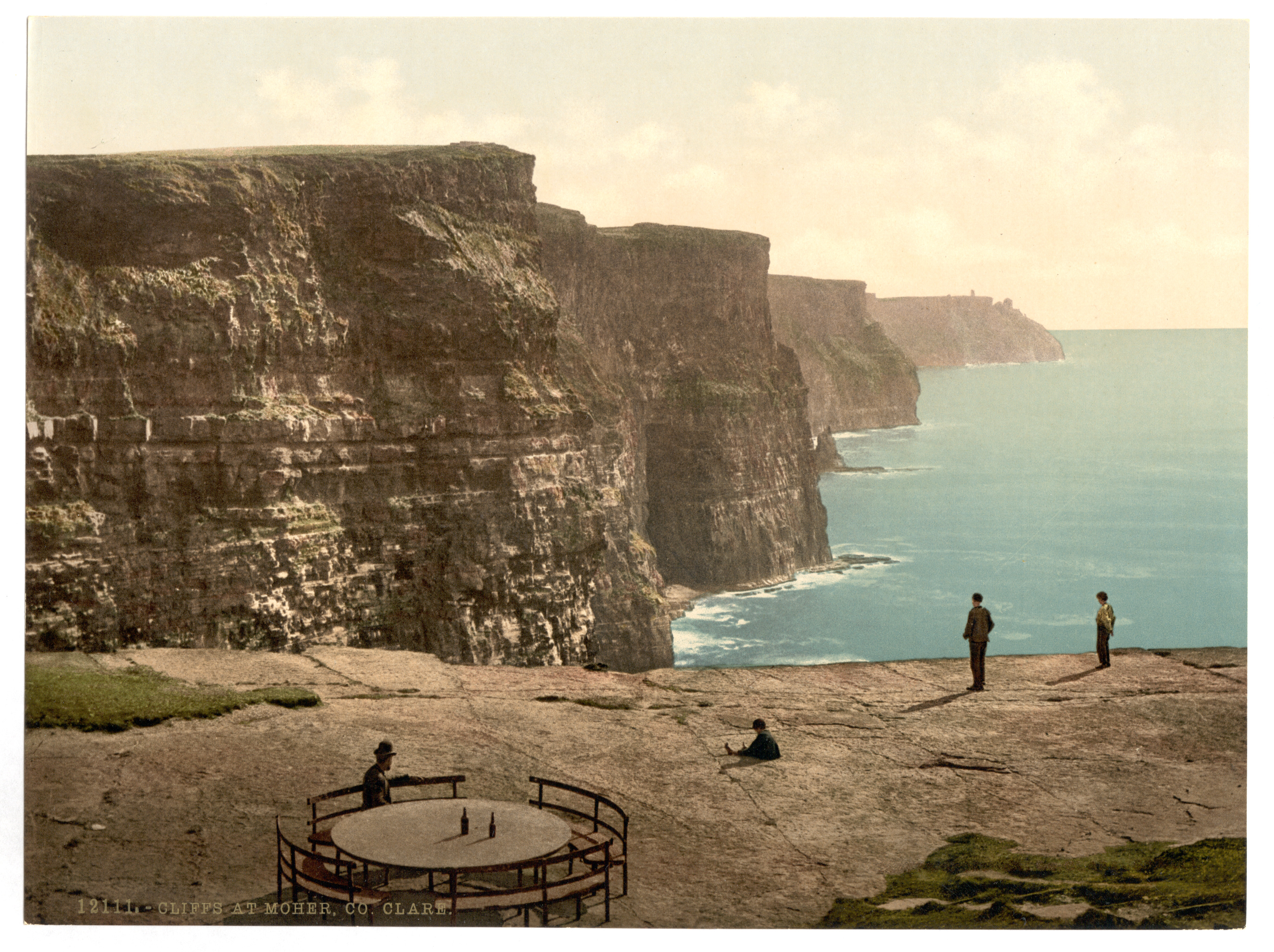 Nineteenth century Photochrom postcard of the Cliffs of Moher in County Clare in Ireland showing cliffside table and refreshments.The flat rock platform in the foreground is identified on Ordnance Survey maps as Leacmayornagneeve and the alternative name, Lakvearnagnive, is recorded in the Ordnance Survey Name Book for the area. These names are anglicized versions of the original Irish language name, Leac Mhaoir na nGníomh, meaning "flagstone of the steward of the deeds/actions".[1] It is unknown who the steward was or what actions of his are commemorated in the name of this physical feature. A circular table and seating were installed at the edge of the cliff in the past, as seen in the picture. Although only about 10 metres deep, Leacmayornagneeve is marked clearly on nineteenth century 6-inch ordnance survey maps of the area, and even the circular seating is clearly drawn on old 25-inch maps. The table and seating are no longer there and visitors are discouraged nowadays from going to the edge of the cliff at this point to peer at the Atlantic Ocean far below, because of the danger. [1] Original Irish name and meaning of Leacmayornagneeve courtesy of the Placenames Database of Ireland.